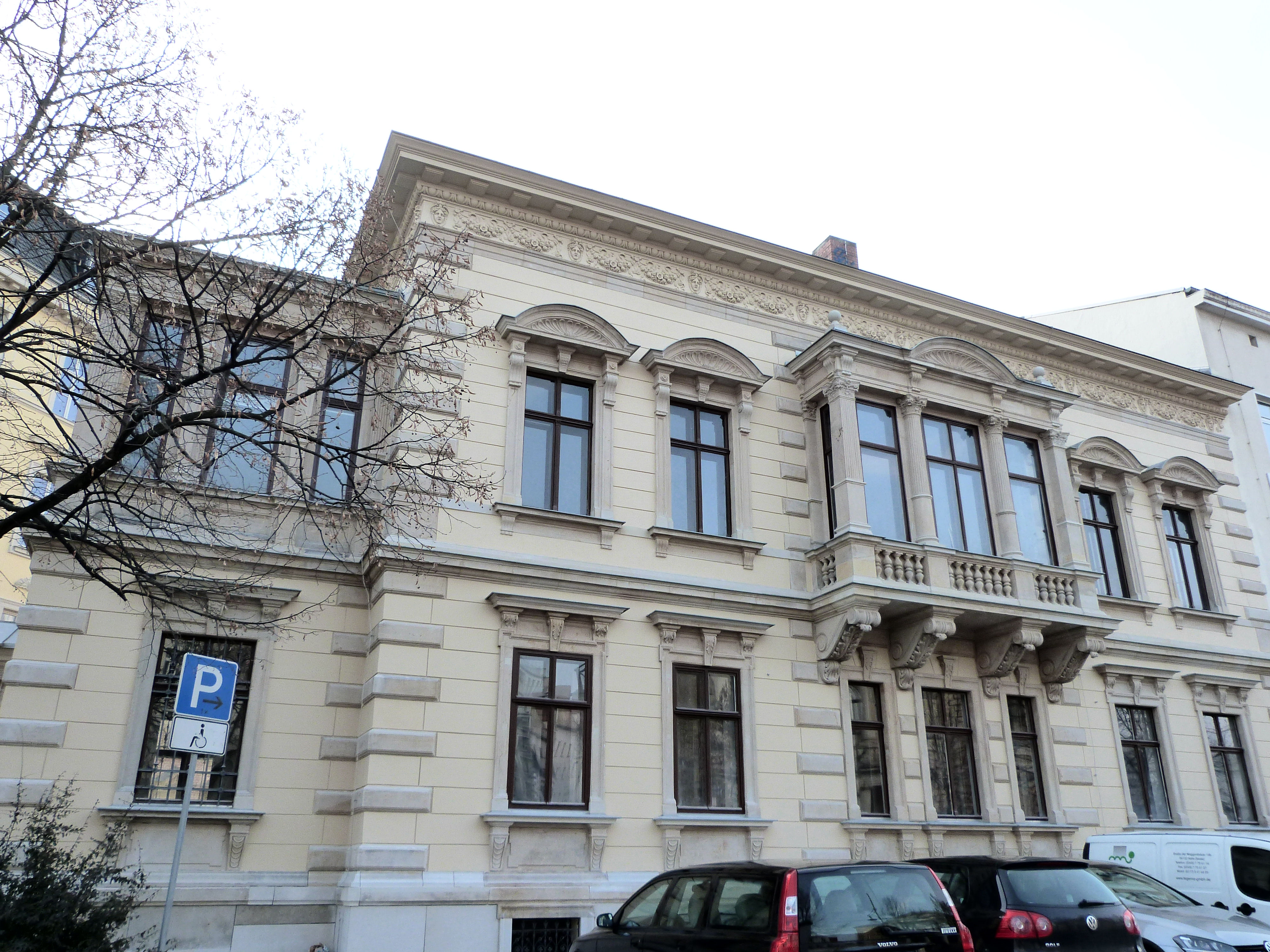 Villa Universitätsring No. 2, Halle (Saale)